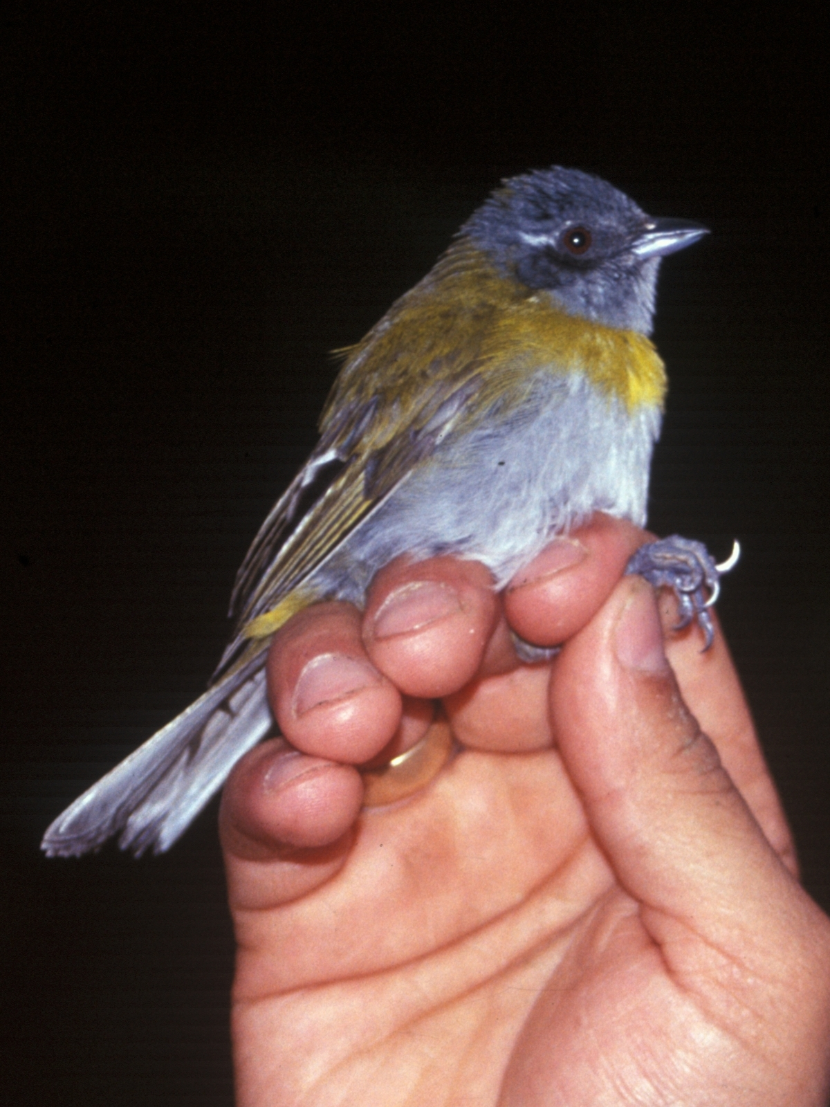 Ashy-throated Bush-tanager (Chlorospingus canigularis) from Cordillera del Cóndor, Ecuador.